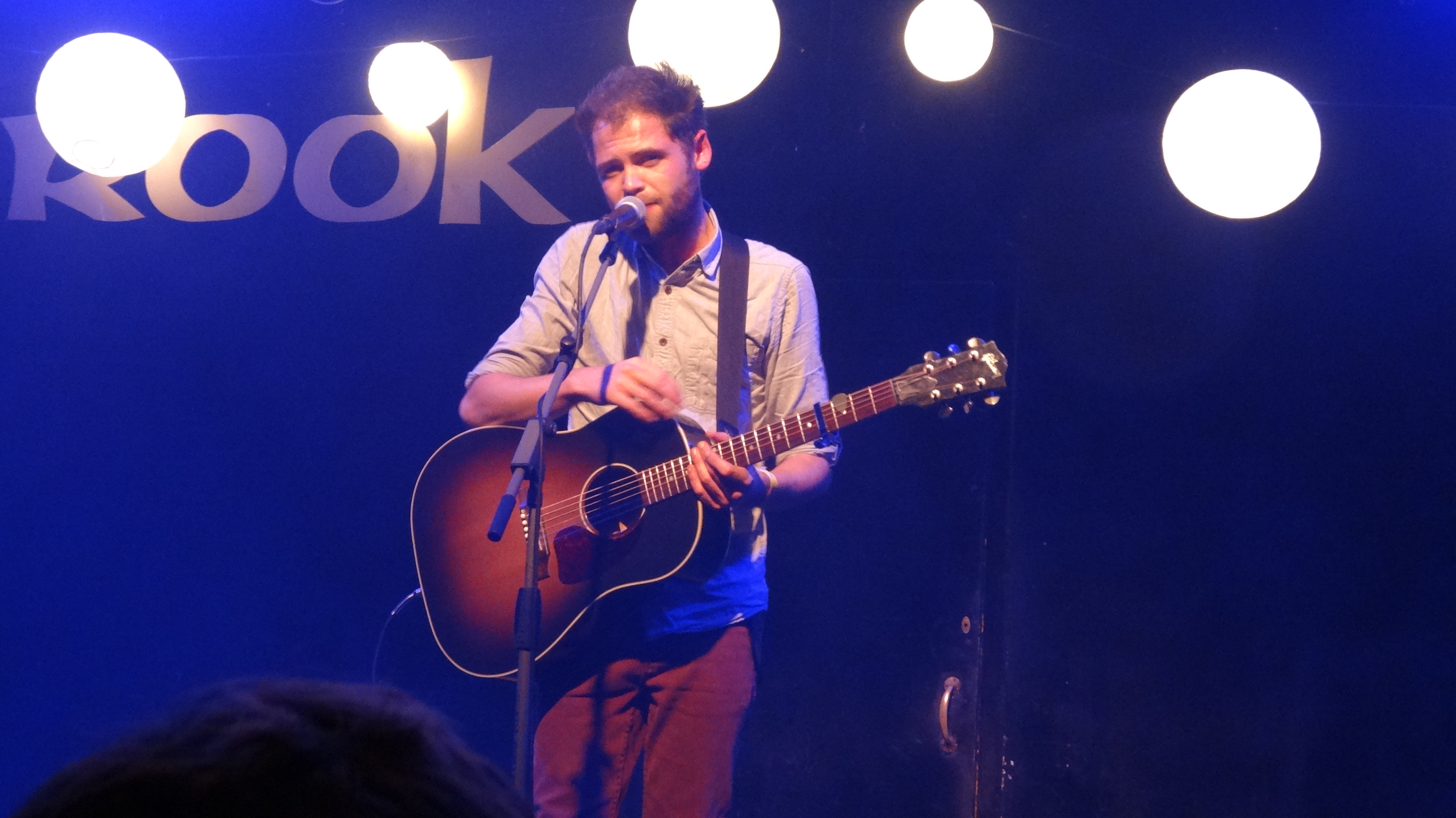 Mike Rosenberg (AKA Passenger), seen performing at The Brook music venue, Southampton, Hampshire, in January 2013.